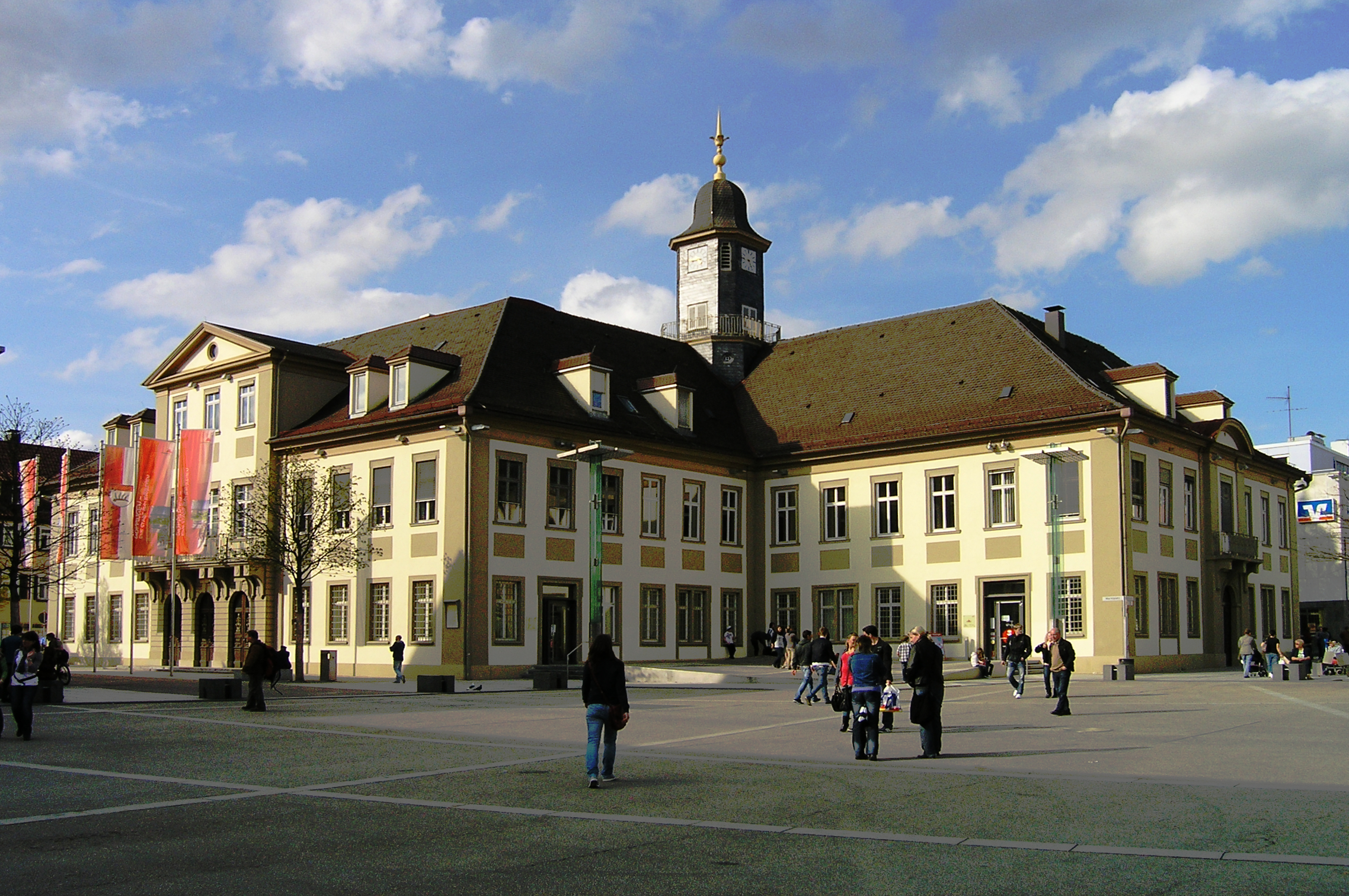 Town hall in Göppingen.